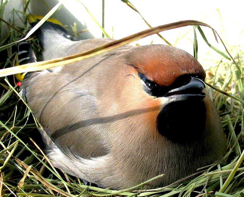 Bombycilla garrulus; author: Monika Betley (Wikipedysta:Dixi)